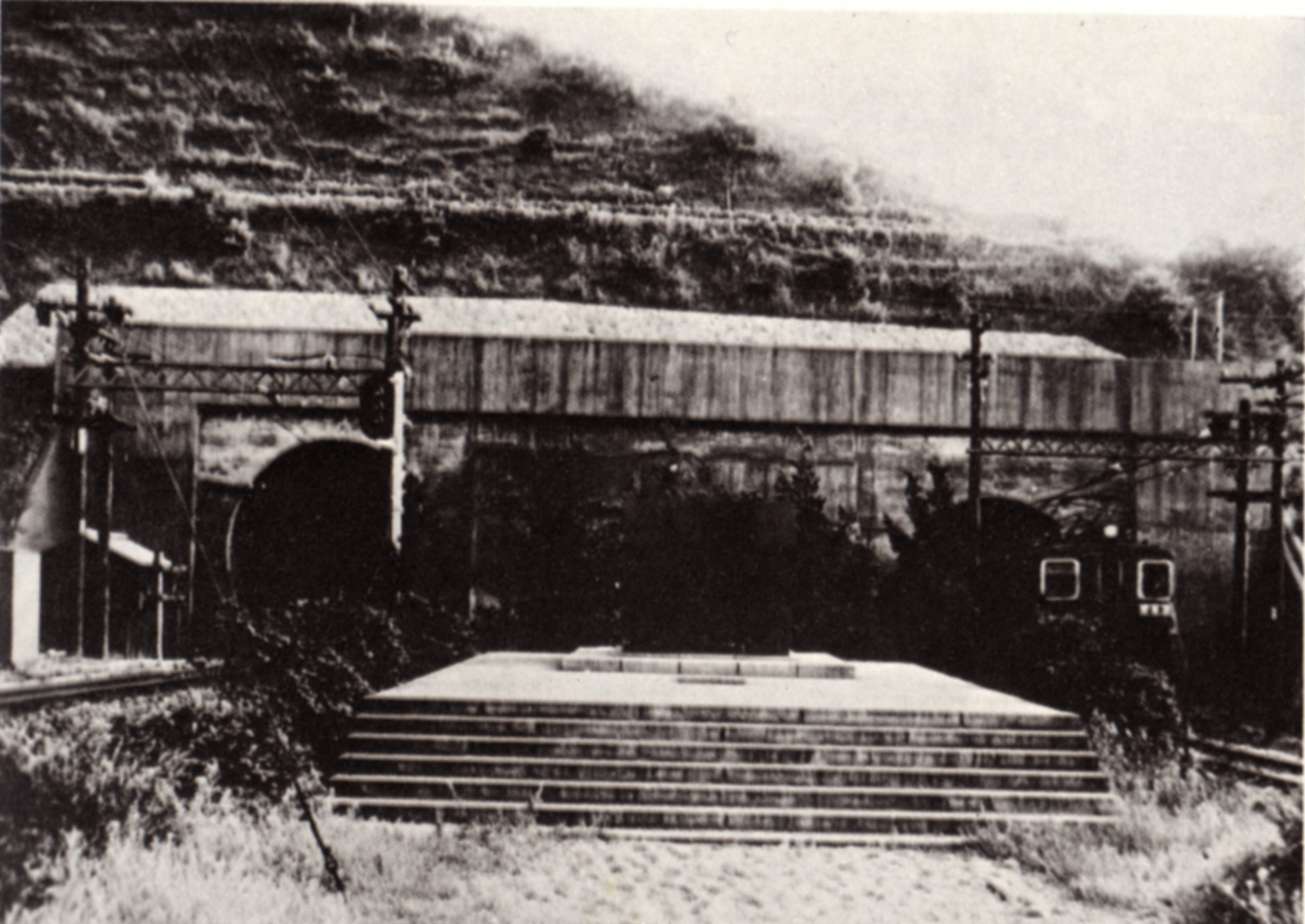 Shimonoseki side portal of Kammon railway tunnel. Left bore is for Kyushu-bound traffic and right bore is for Honshu-bound traffic, and there is a monument for victims during the construction between them